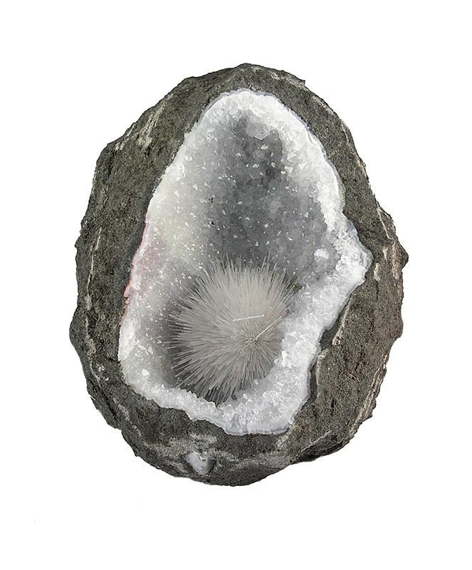 Natrolite, Quartz Locality: Nasik District, Maharashtra, India (Locality at ) Size: 8.1 x 6.4 x 4.9 cm. Natrolite is a rather rare mineral from India. For symmetry and perfection, you will likely have to search a long time to find one as aesthetic as this 2.8 cm spray. The way the Natrolite delicately nestles among the Quartz crystals is simply marvelous.